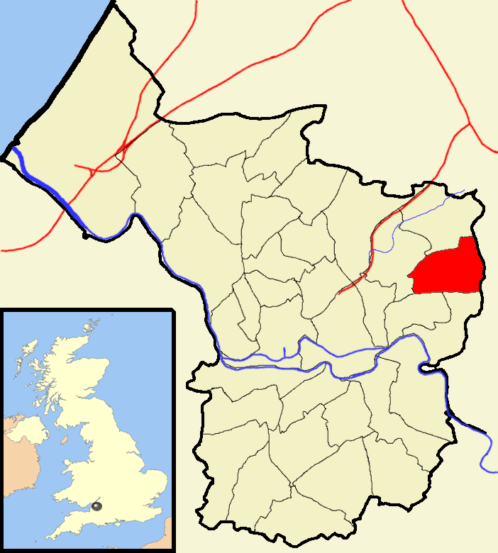 Hillfields Ward, shown within Bristol.